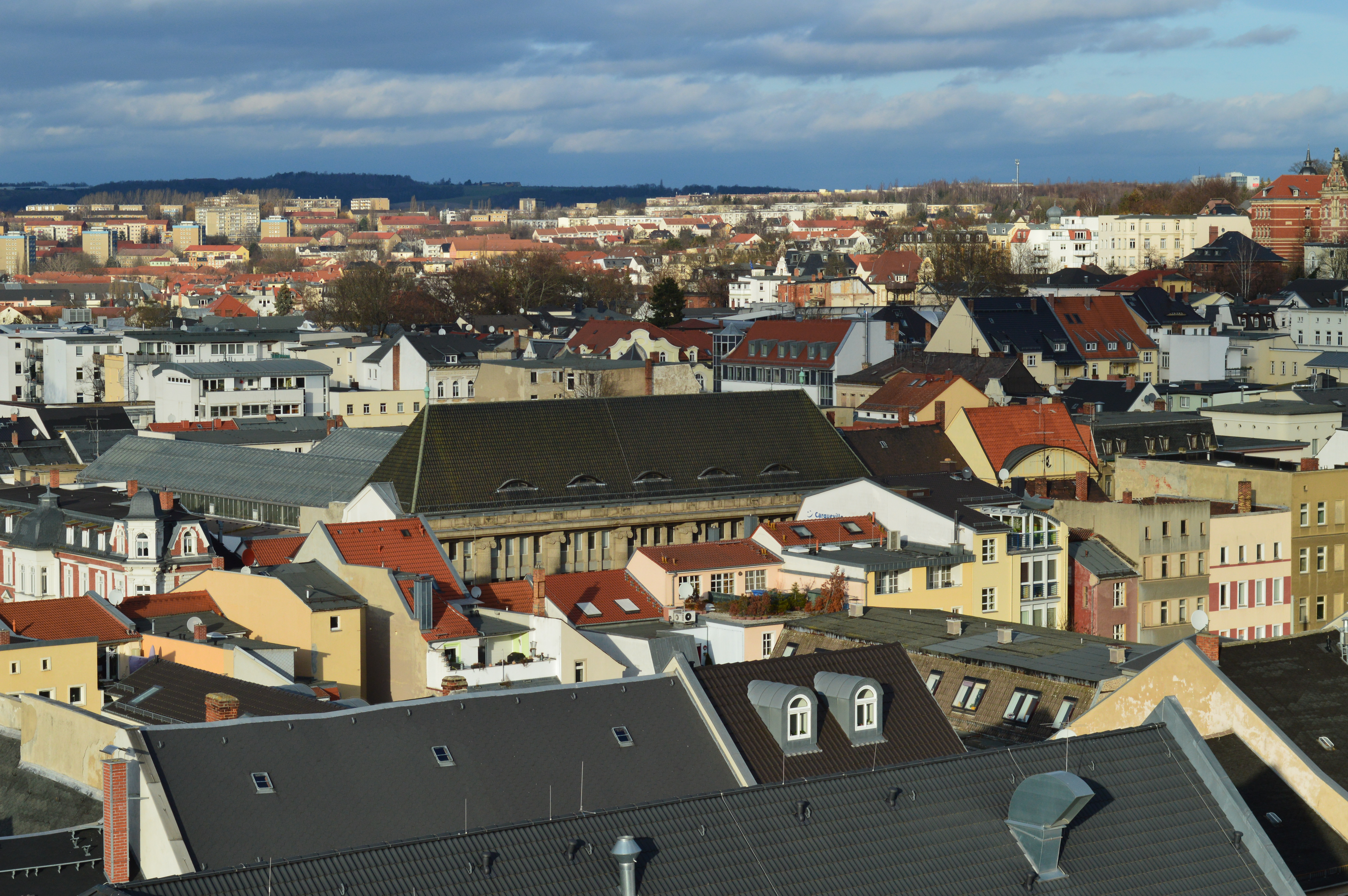 View from the city hall tower in Gera, Germany, in December 2013: View towards the Sorge with the former Tietz department store